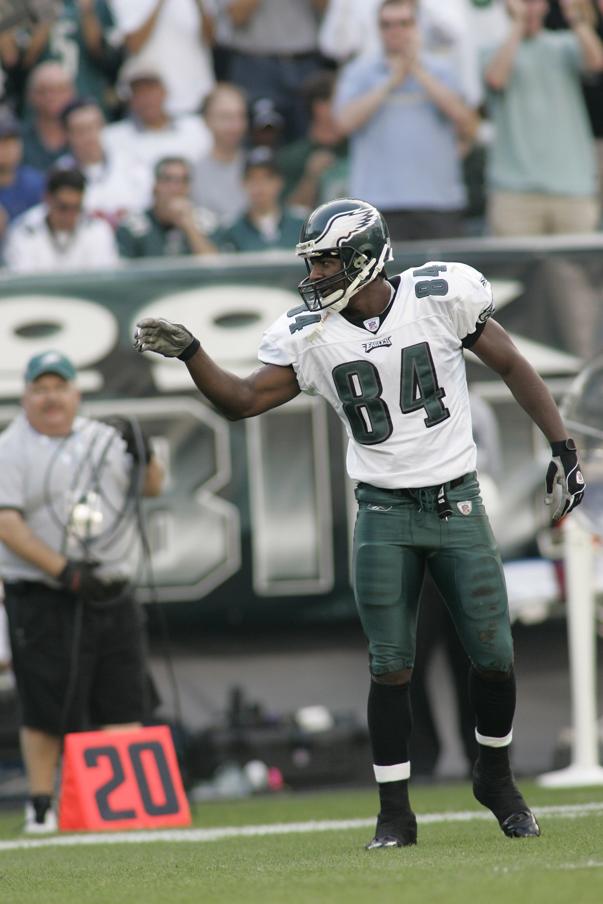 Philadelphia Eagles player Freddie Mitchell in a game against the New York Giants on September 12, 2004.